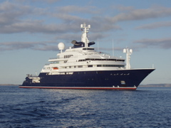 M/Y Octopus